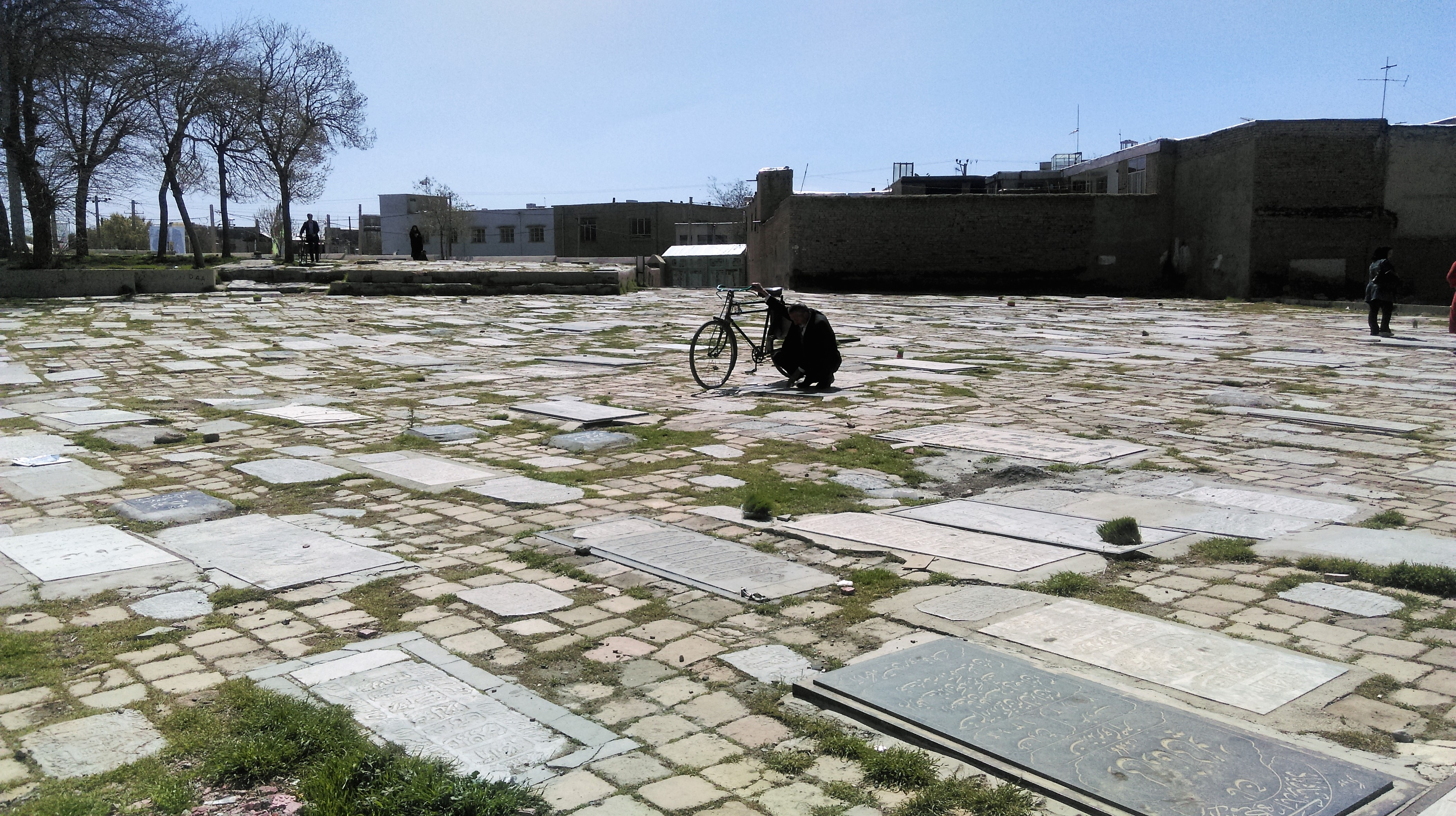 Shrine of Imamzadeh Jafar, Borujerd, Iran.